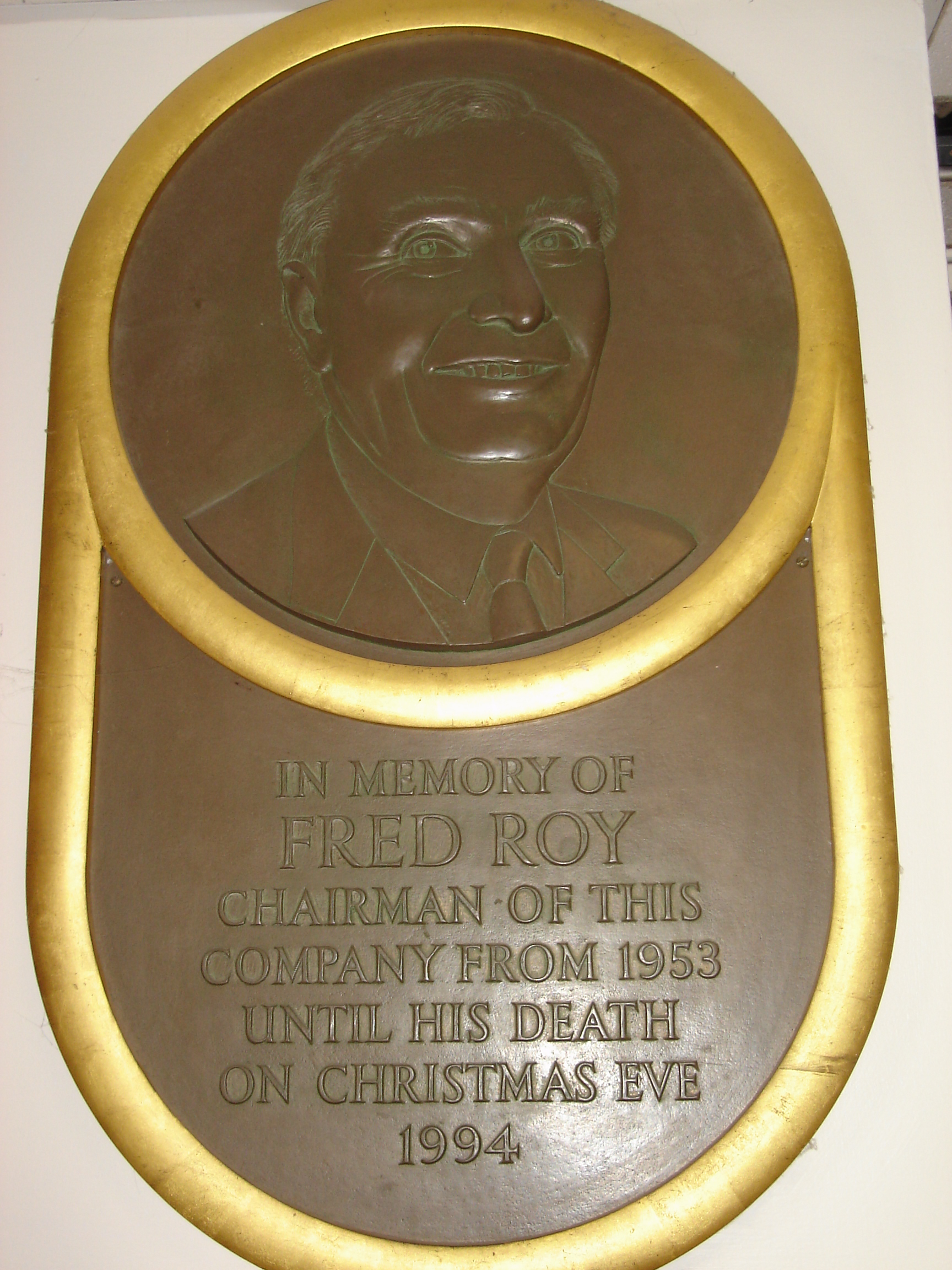 This plaque of Fred Roy is on public display at Roys of Wroxham. Roy was a chairman of the company up to his death in 1994